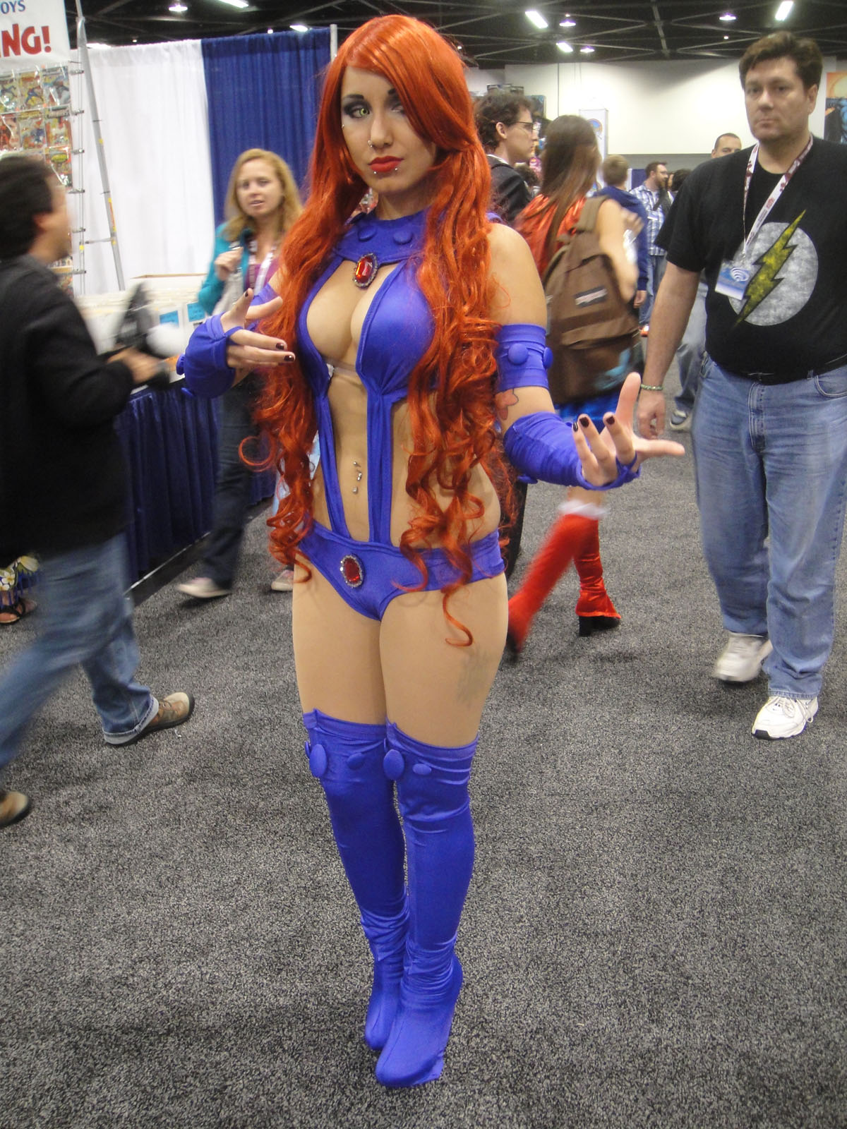 photo 2012 Pop Culture Geek taken by Doug Kline If you're interested in higher resolution versions of my images, contact me via my profile page.